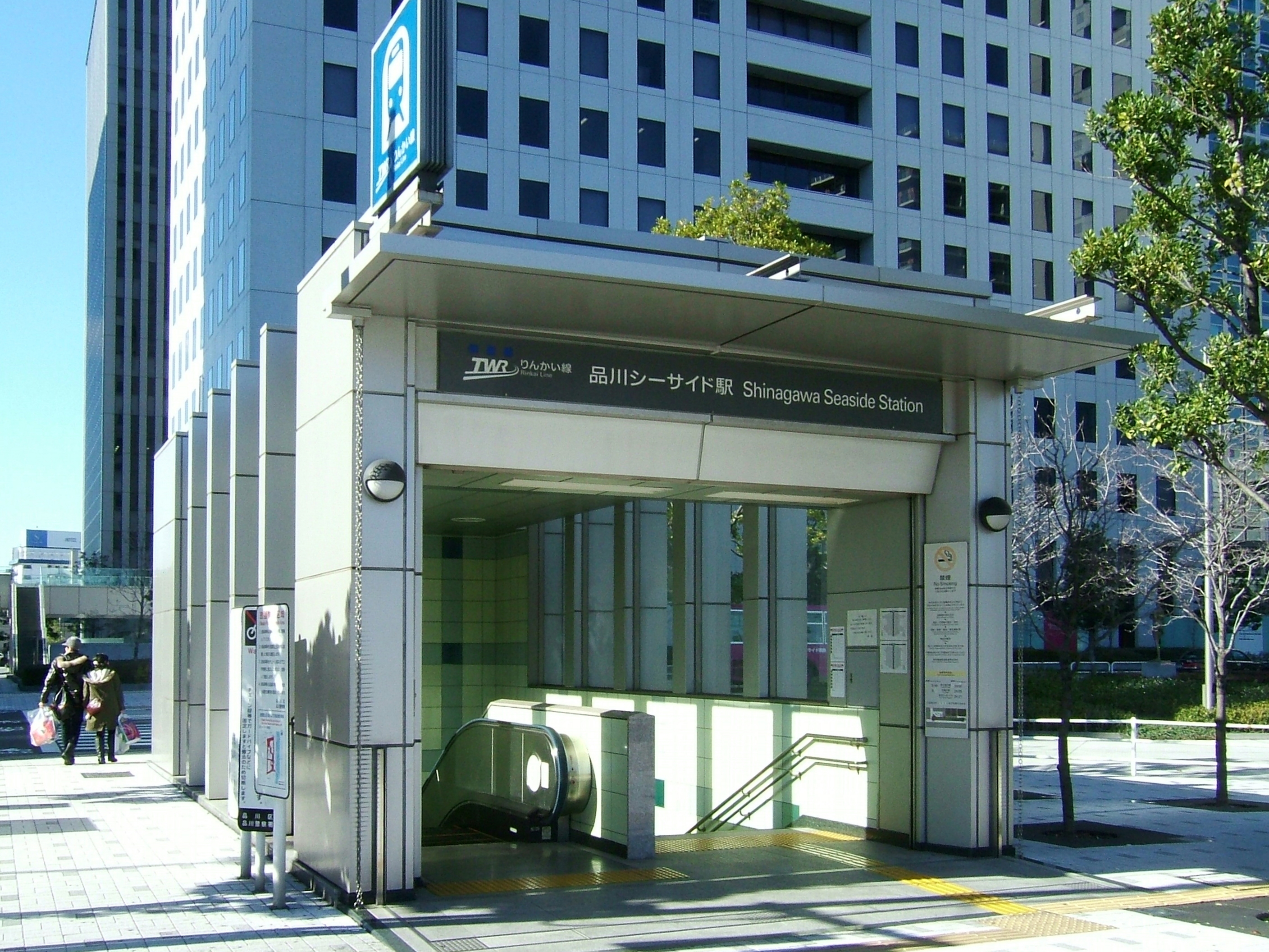 The B entrance to the Shinagawa Seaside Station on the Rinkai Line